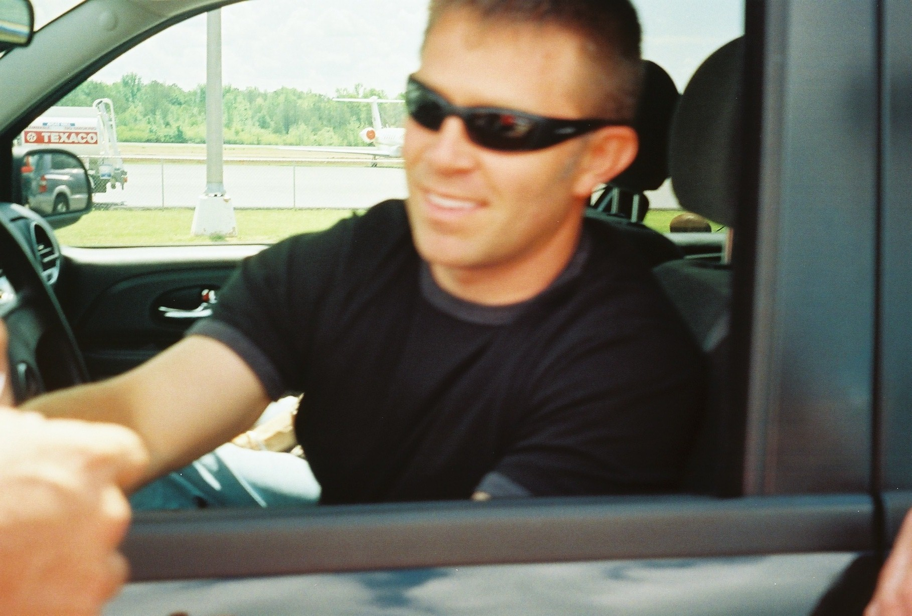 Scott Riggs arriving for the 2008 Aaron's 499 NASCAR Sprint Cup Series race